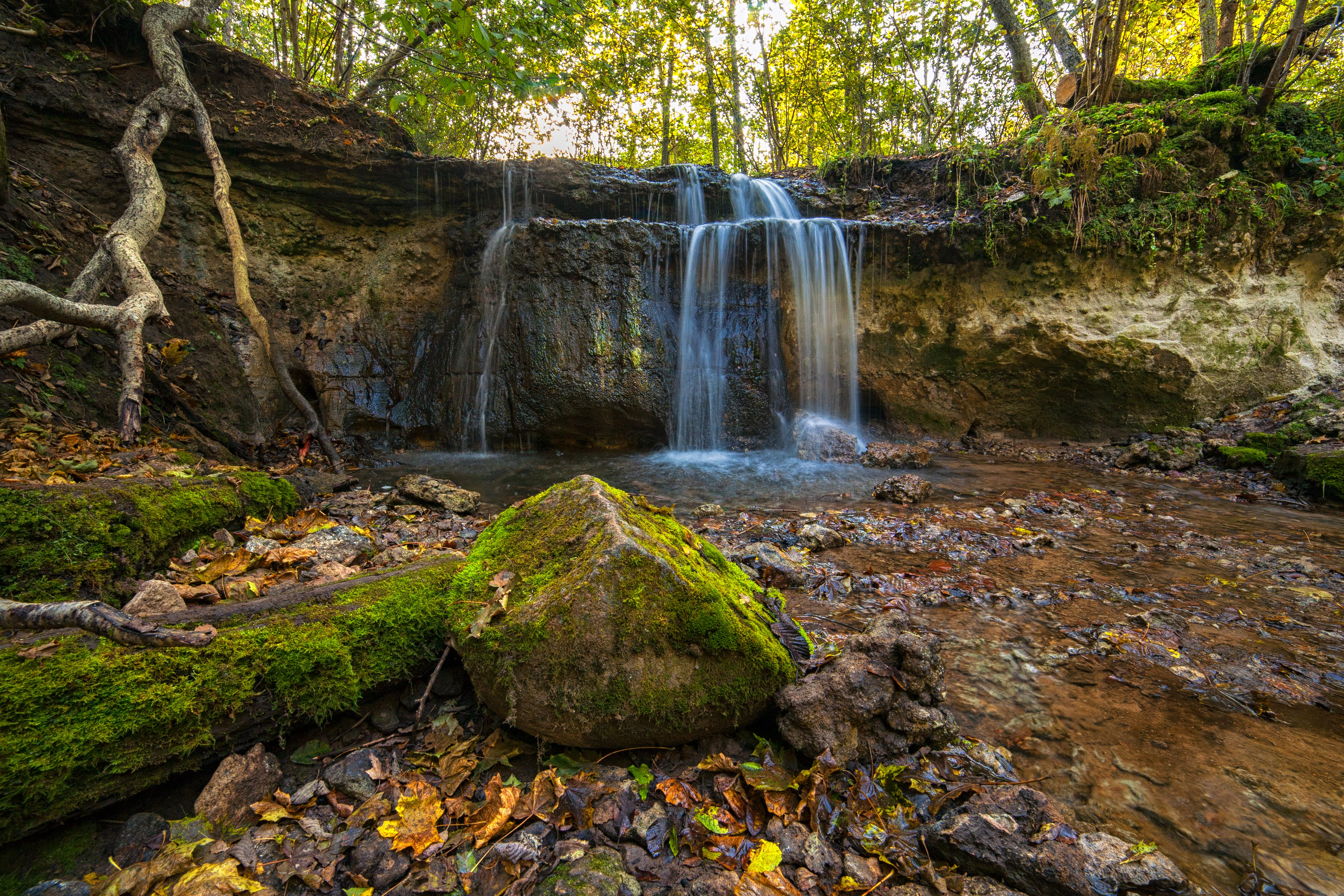 Dauda waterfall in the Dauda valley, in the teritory of the nature monument "Dauda and Jodupīte valley". The waterfall consists of two cascades, it's 2,4 m high, and 1,5—2,5 m in width. Third highest waterfall in Latvia.